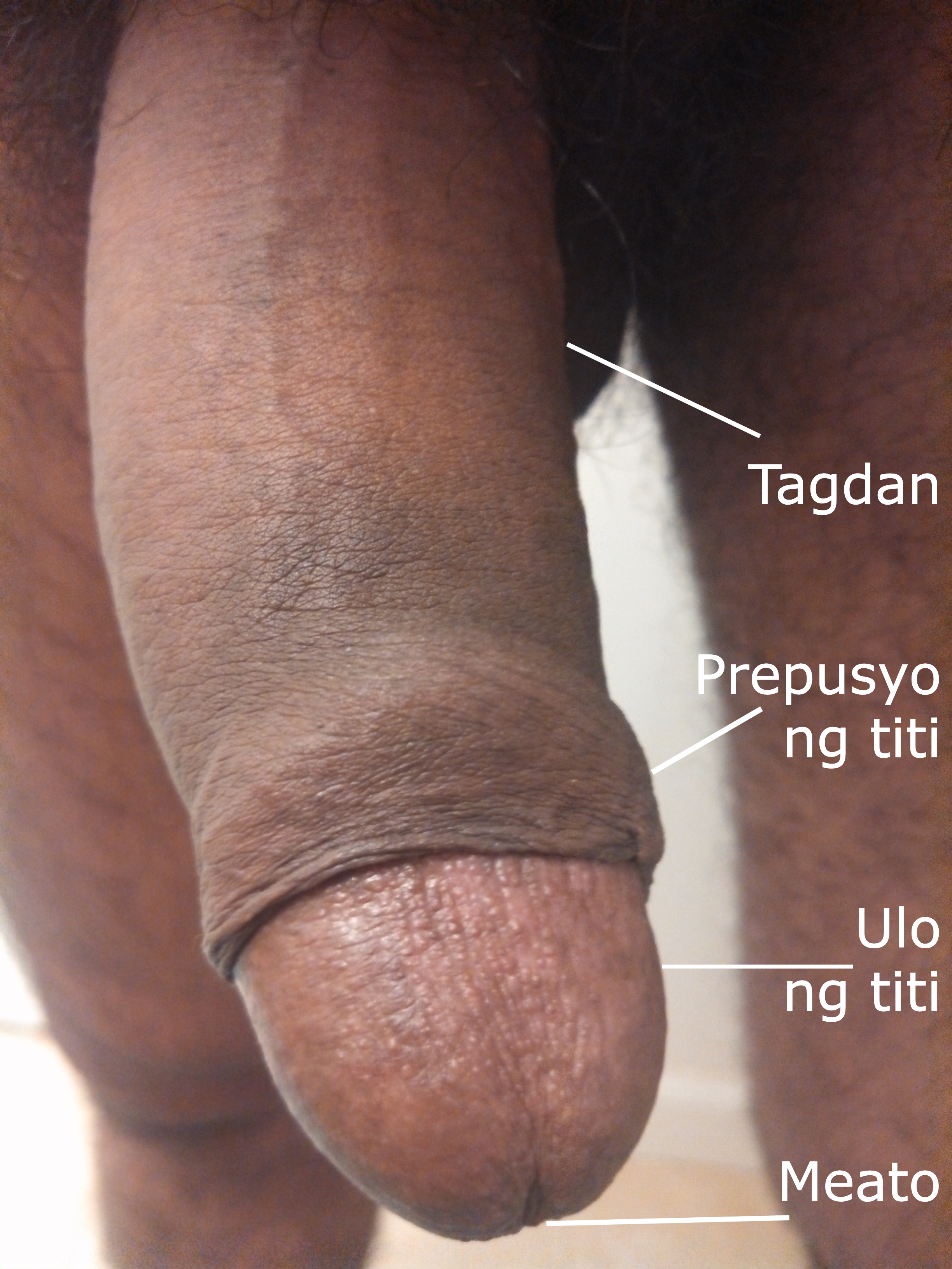 Image of foreskin close-up with Tagalog descriptions